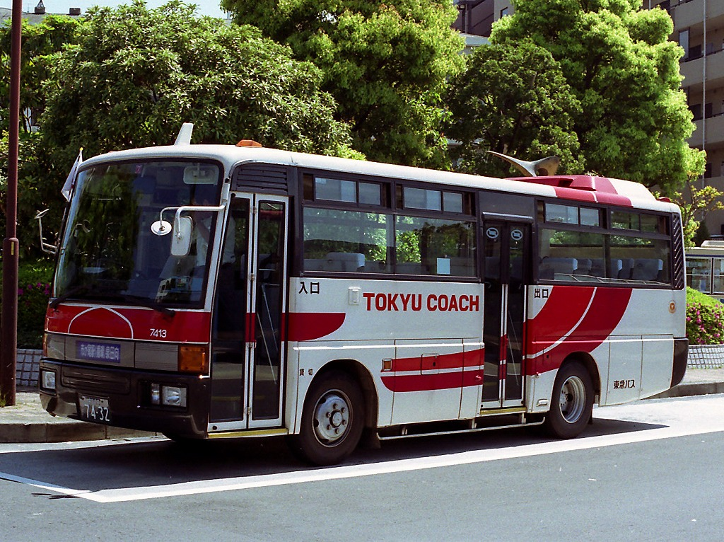 Tokyu bus(Tokyu coach) Mitsubishi Fuso Aero Midi MK (U-MK517F)